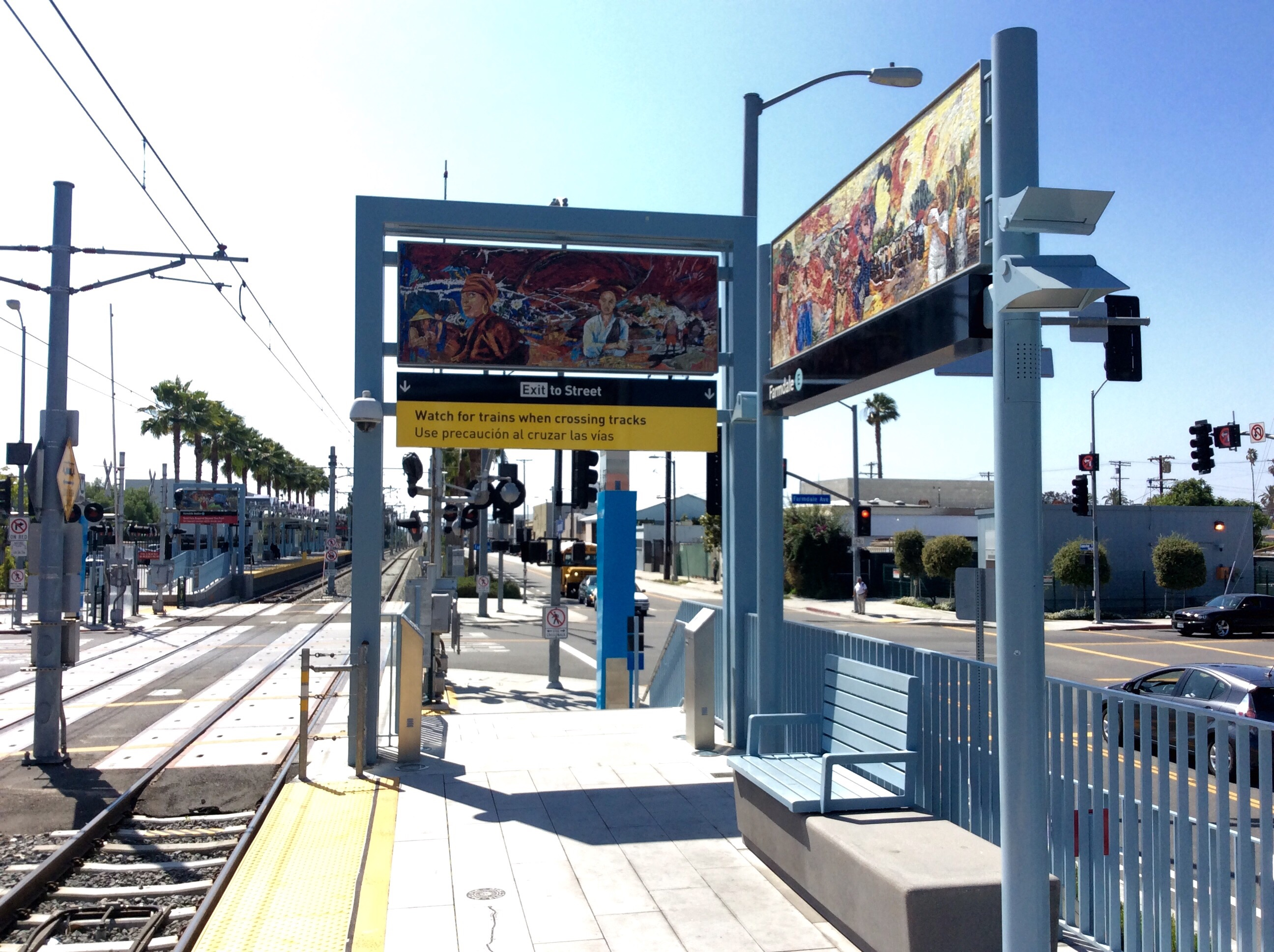 The art view of Expo/La Brea Station.